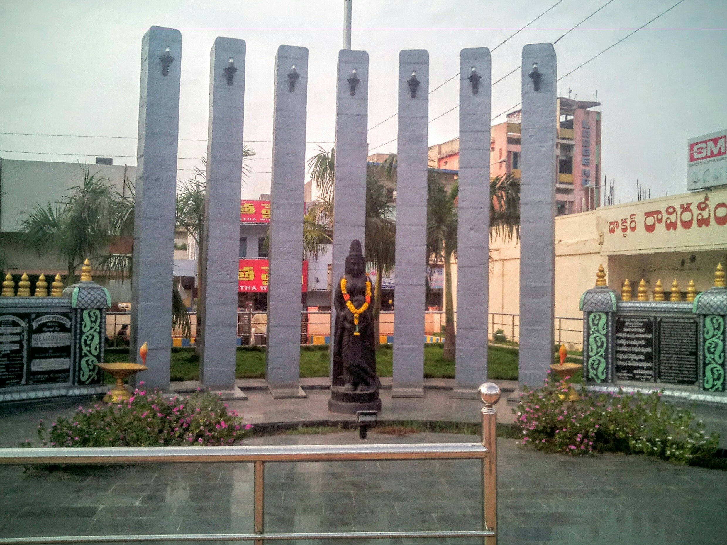 Martyrs' Memorial located at Ranaranga chowk in Tenali